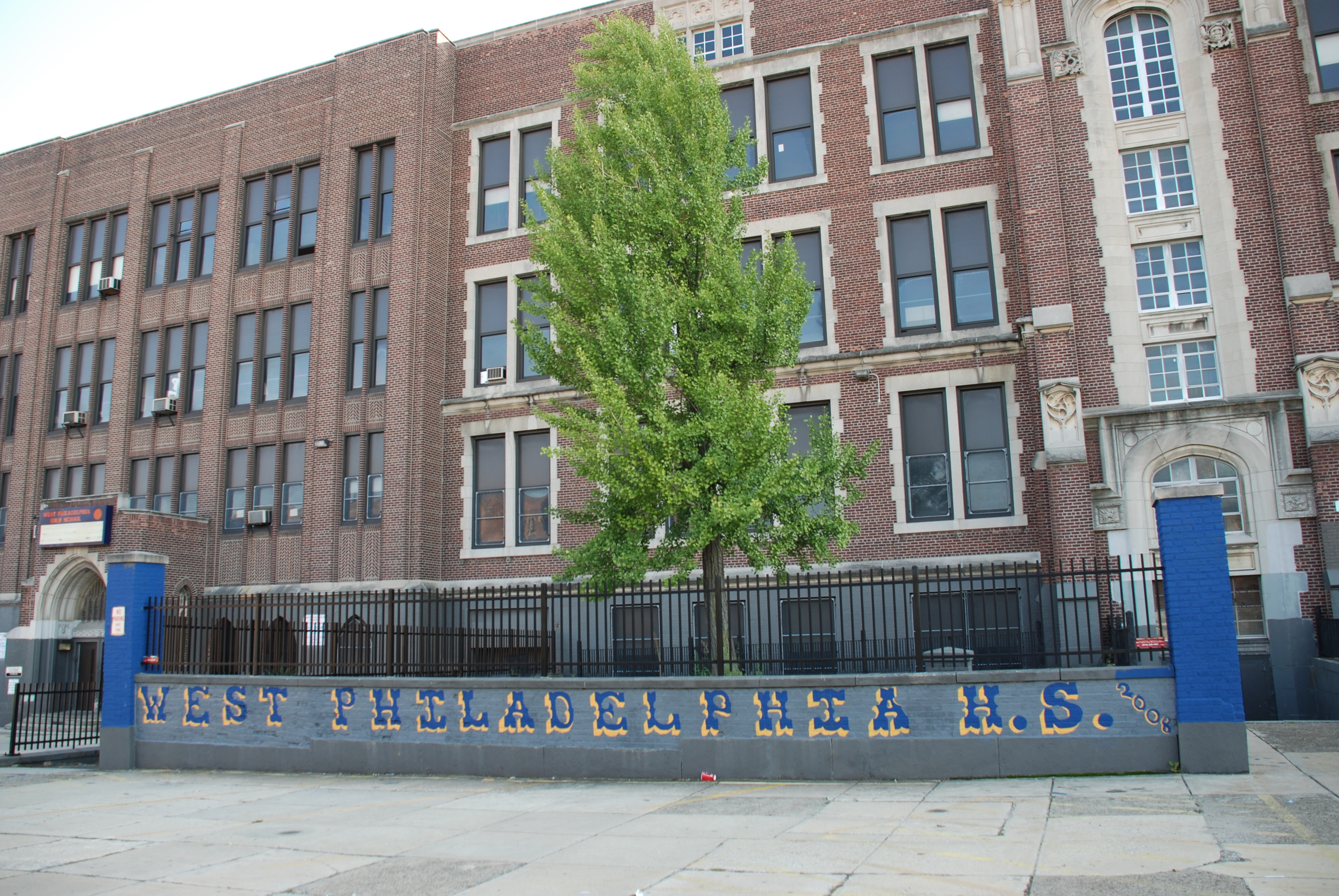 West Philadelphia High School, 47/48 st bet. Walnut & Locust